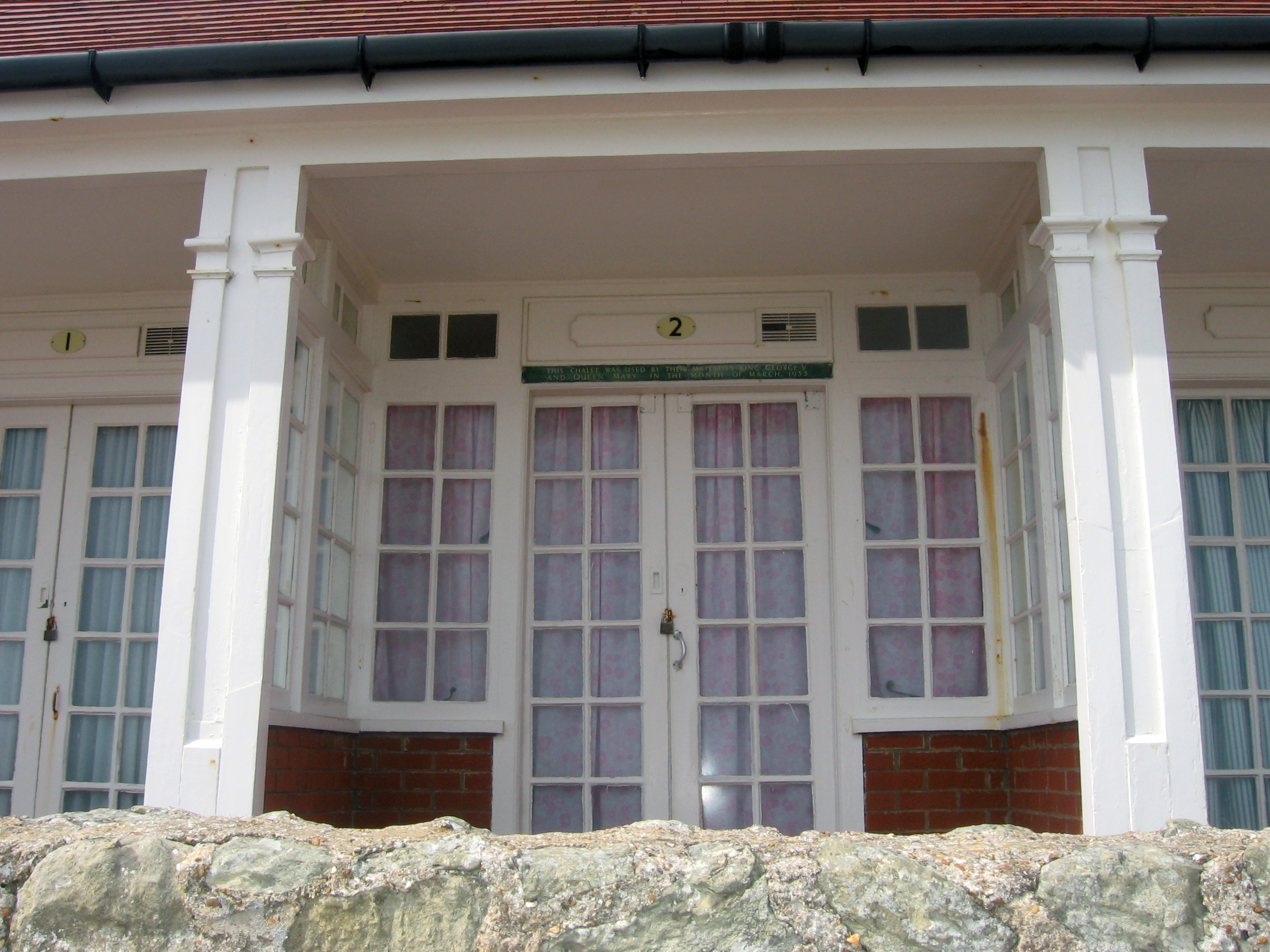 Chalet 2, Holywell, Eastbourne